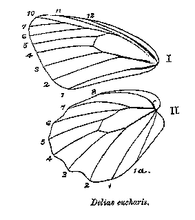 Common Jezebel